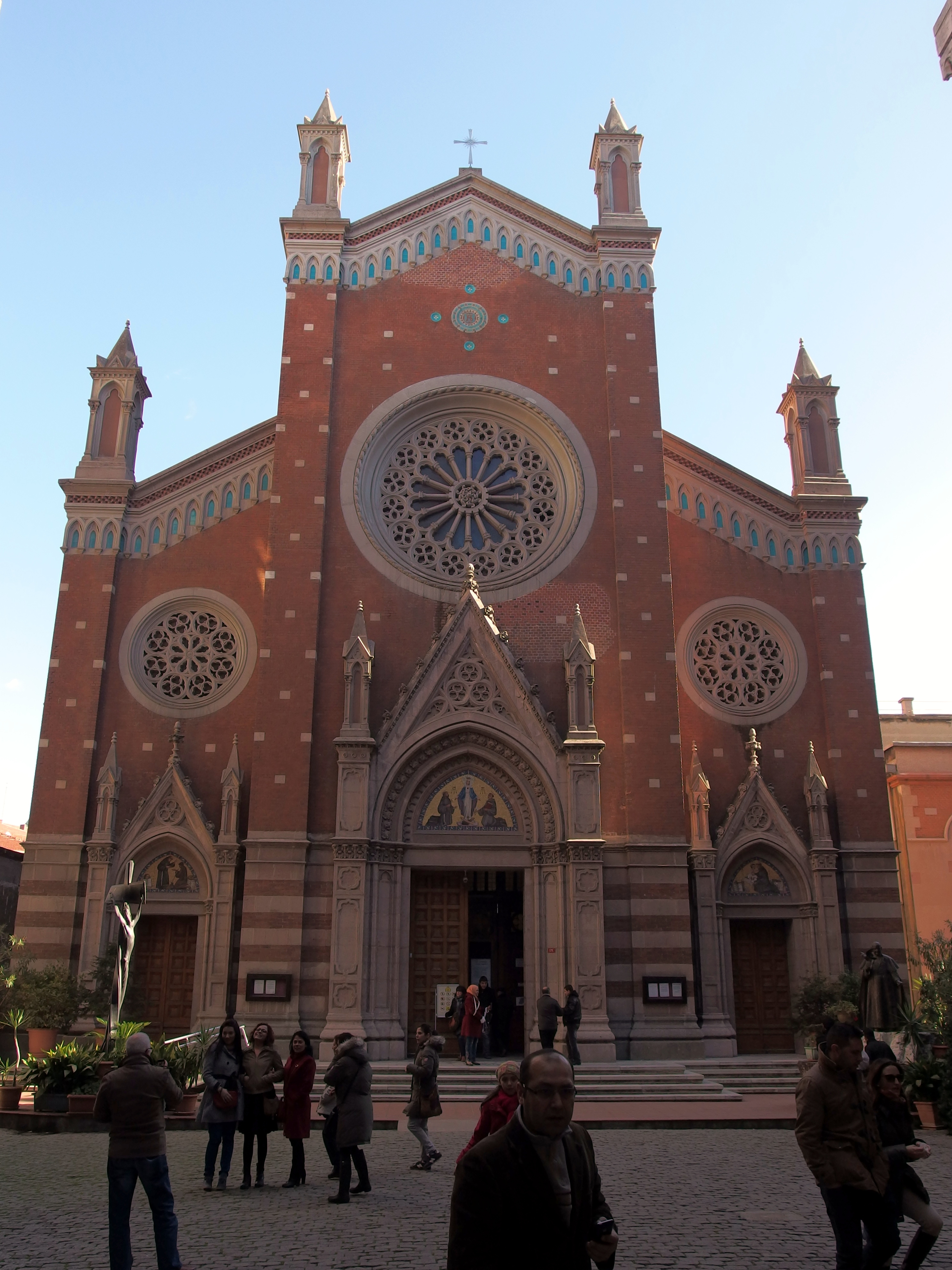 2013-12-08 in Istanbul.